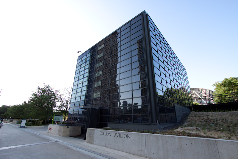 Northeast Exelon Pavilion in Millennium Park, Chicago, Illinois, USA - more info here